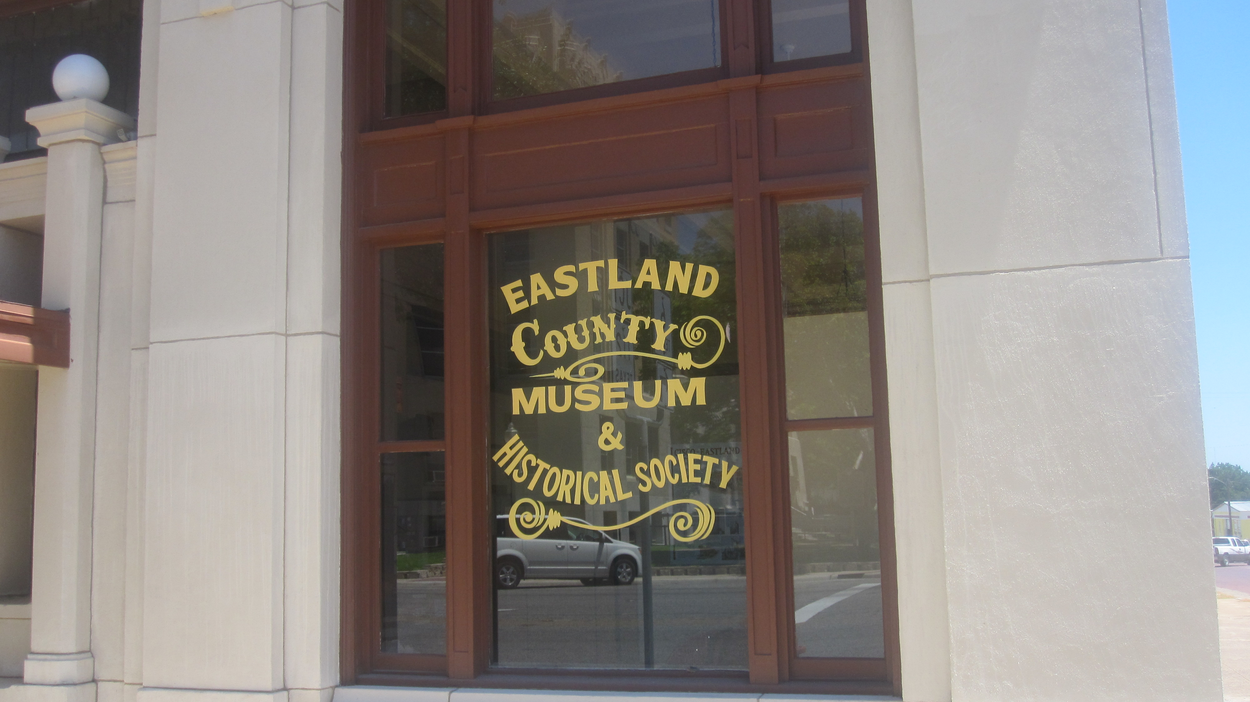 I took photo with Canon camera in Eastland, TX.